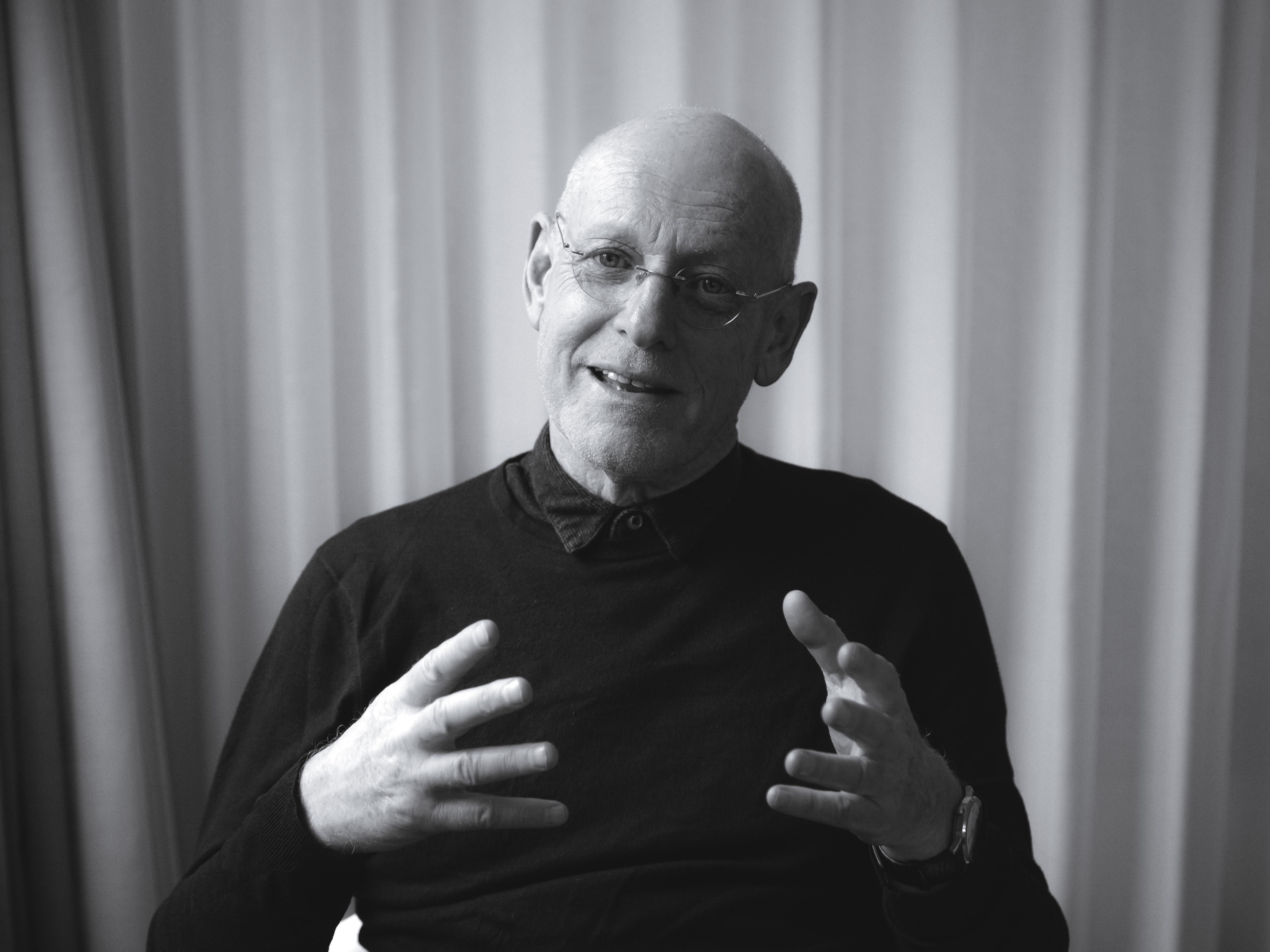 Gary Goldstein (Israeli artist)